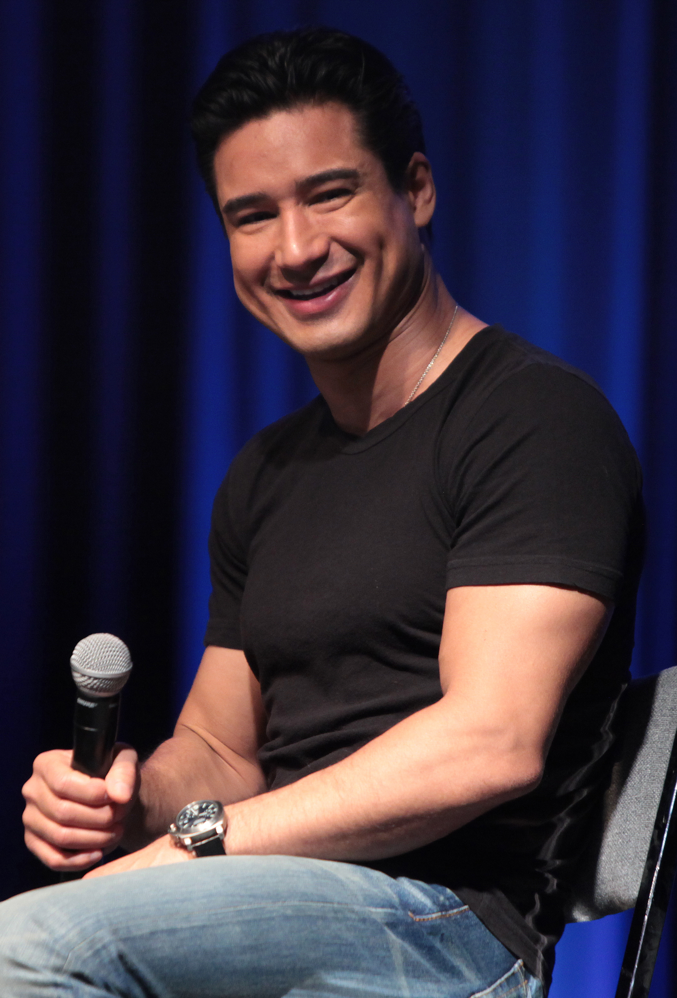 Mario Lopez speaking at an event in Phoenix, Arizona.